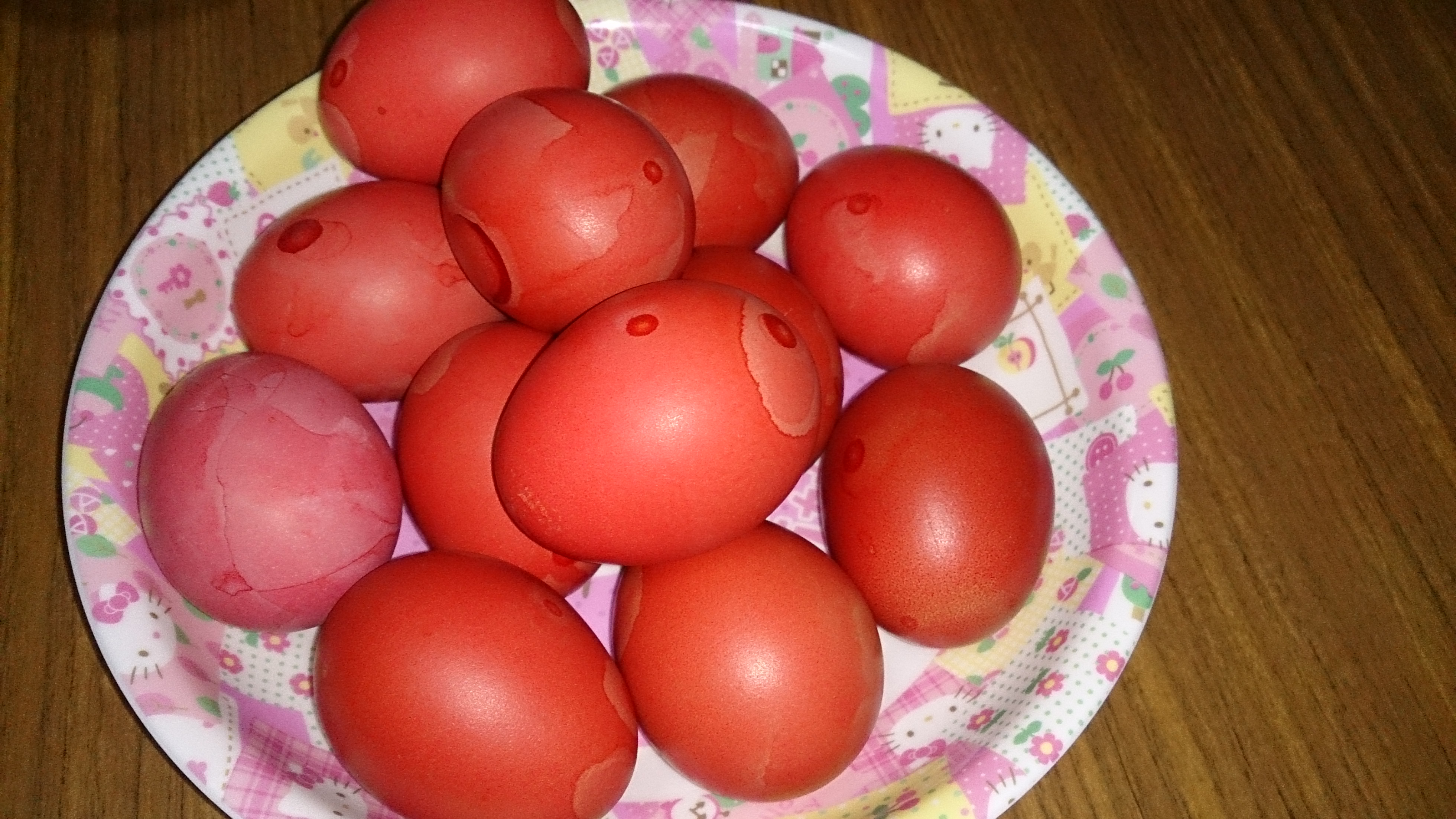 Hard boiled eggs with the shells dyed red, which are eaten by the Chinese for birthday celebrations.